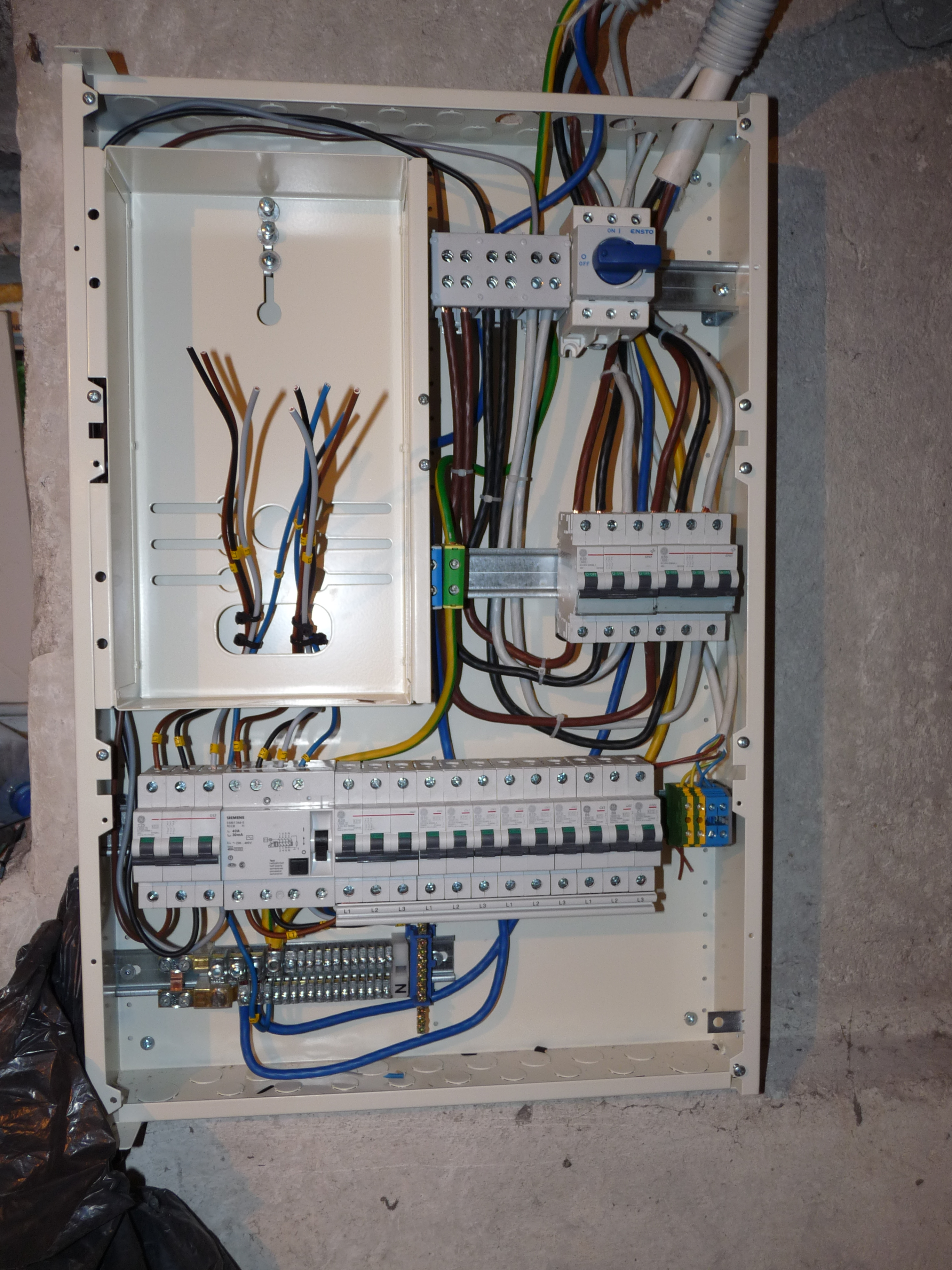 Main distribution board during construction process. Ground system TN-C-S (as you can see in down left corner) Main switch 100A Load: 50A each stair (DIN rail in the middle) 25A to house light and water heating (DIN rail below) B20 to water heating 3xB10 to cellar and attic light 3xB10 to TV and internet providers 2xB6 to light on stairs 1xC1 to driving circuits (light on the stairs will be drived by twilight relay) As you can see, it is quite hard to work with cable 16mm²; so do template and cut proper length of fat cables before puting to distribution board, otherwise you will suffer yourself to working such hard cable and became tired quickly with zero result. And don't forget to join distribution board's cover to main PE terminal!